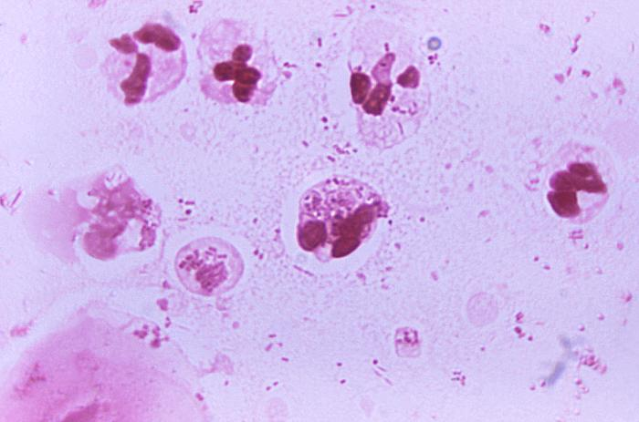 A photomicrograph of urethral exudates from a patient with “nonspecific” urethritis; Magnified 1125X. The neutrophils are apparently phagocytizing bacteria. The paired N. gonorrhoeae diplococci is the etiologic pathogen, a bacterium that grows and multiplies quickly in moist, warm areas of the body like the cervix, urethra, mouth, or rectum.